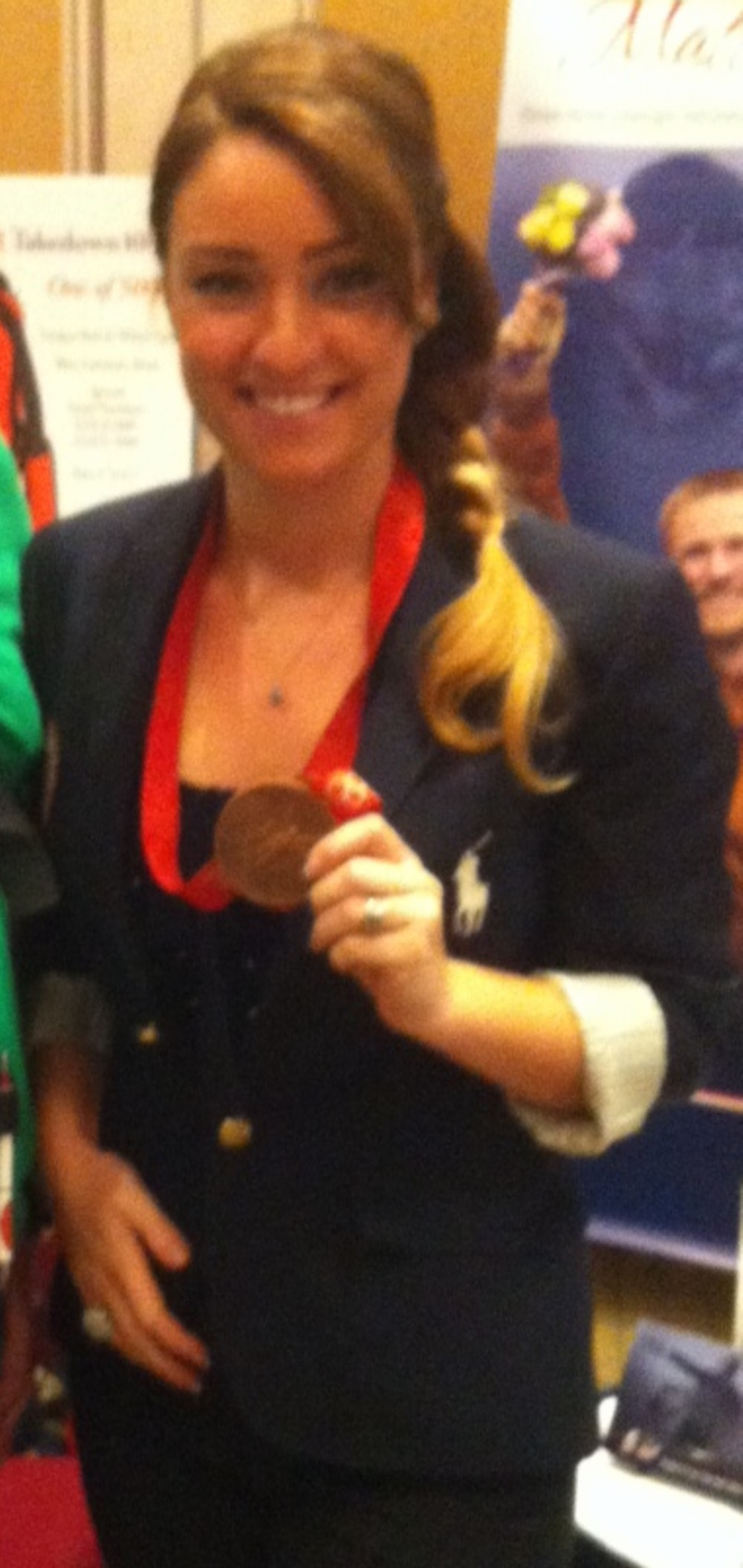 Photo of 2008 Olympic Bronze Medalist, Corey Cogdell, at the 2013 Shot Show in Las Vegas, NV